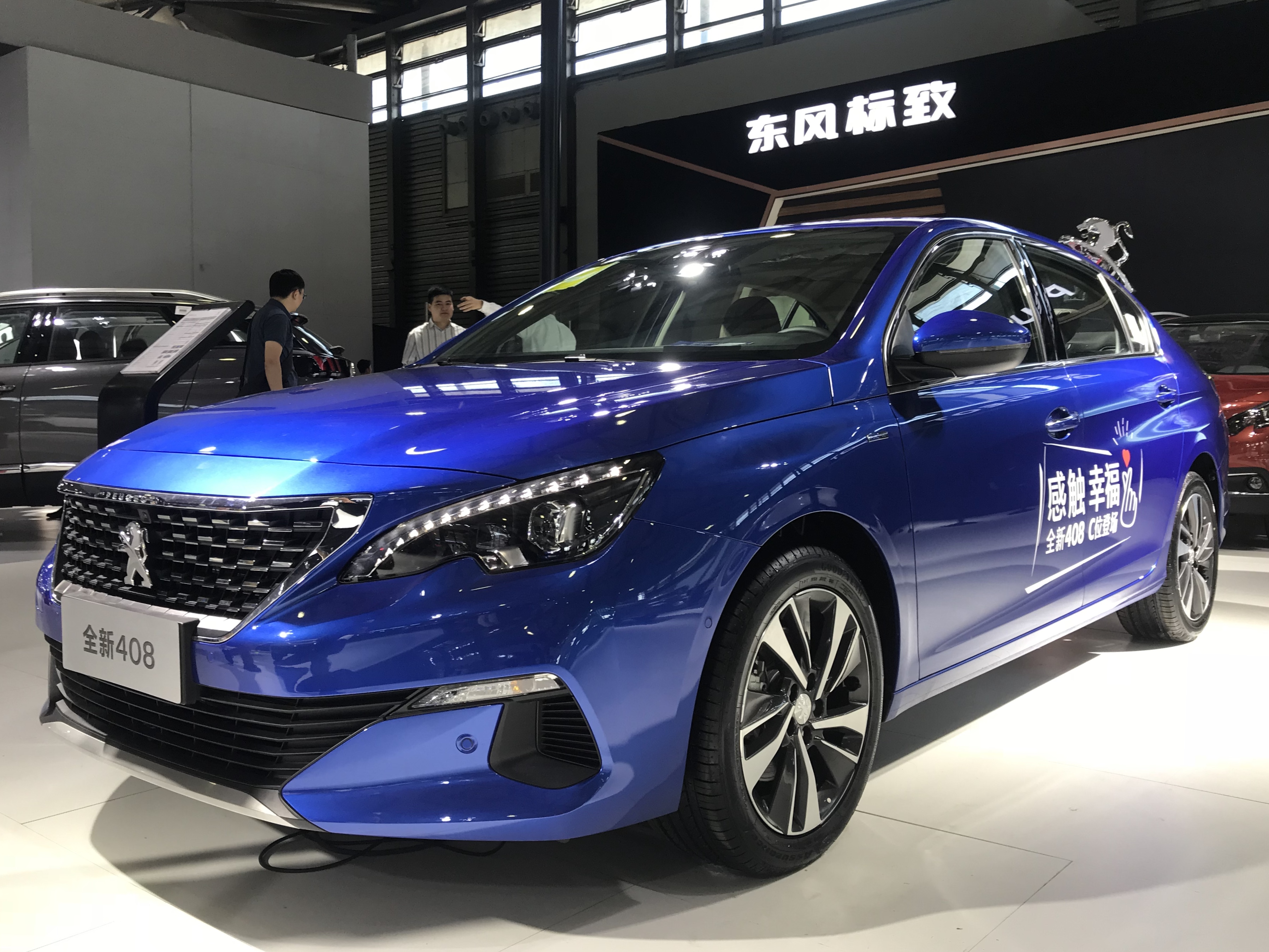 Peugeot 408 II facelift